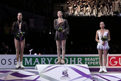 2013 World Championship